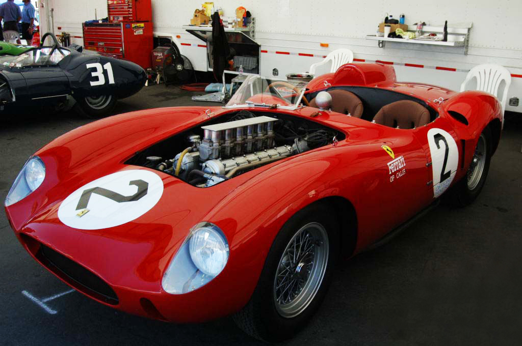 Category:1958 Ferrari 312S/412MI s/n 0744 at Monterey Historics 2008